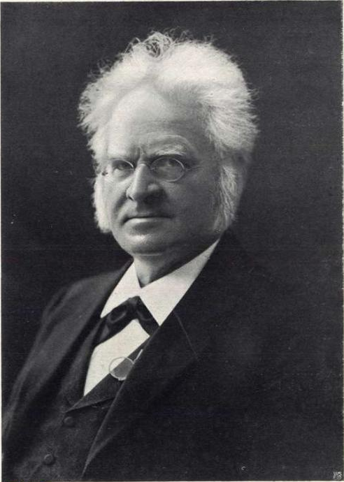 The Norwegian author Bjørnstjerne Bjørnson.